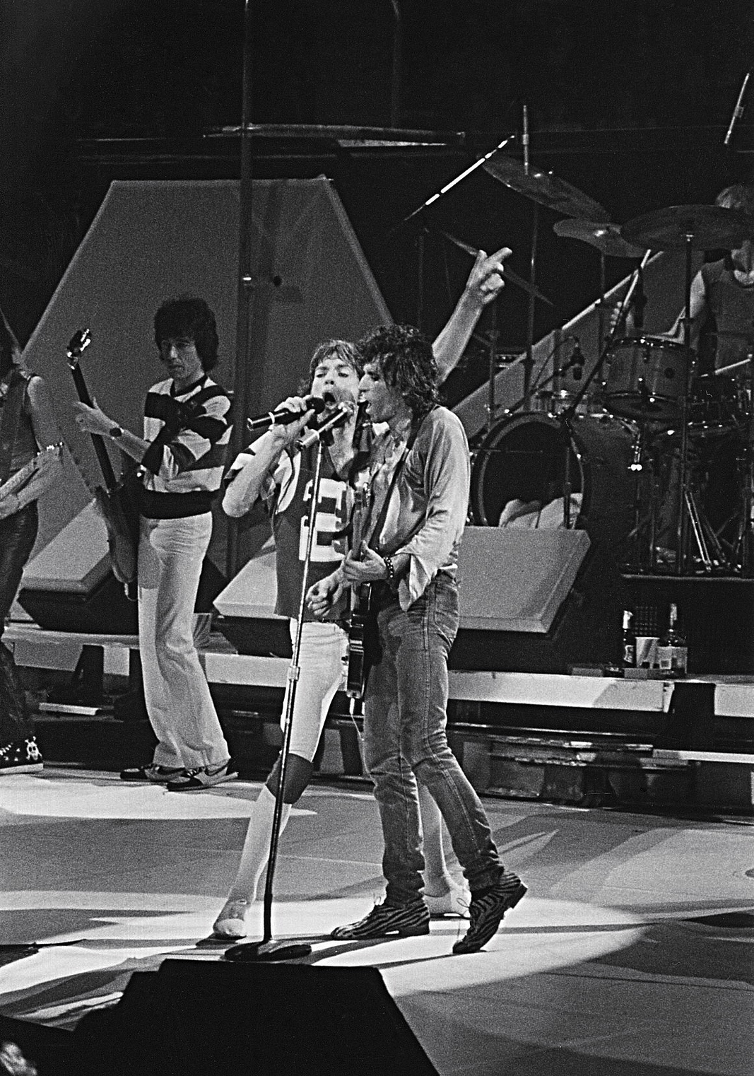 The Rolling Stones in concert at the Checkerdome in St. Louis, Missouri (USA) on November 19, 1981. Front: Mick Jagger (left) and Keith Richards (right); back: Bill Wyman; only partly visible: Ron Wood (far left) and Charlie Watts (far right, behind the drums)